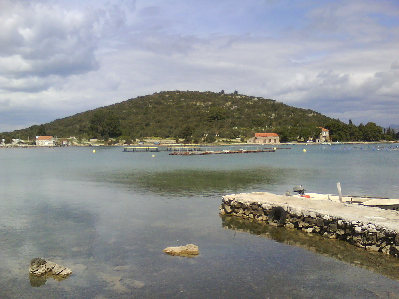 Oyster plant, near mansion Sutvid ,near village Drače, Janjina municipality